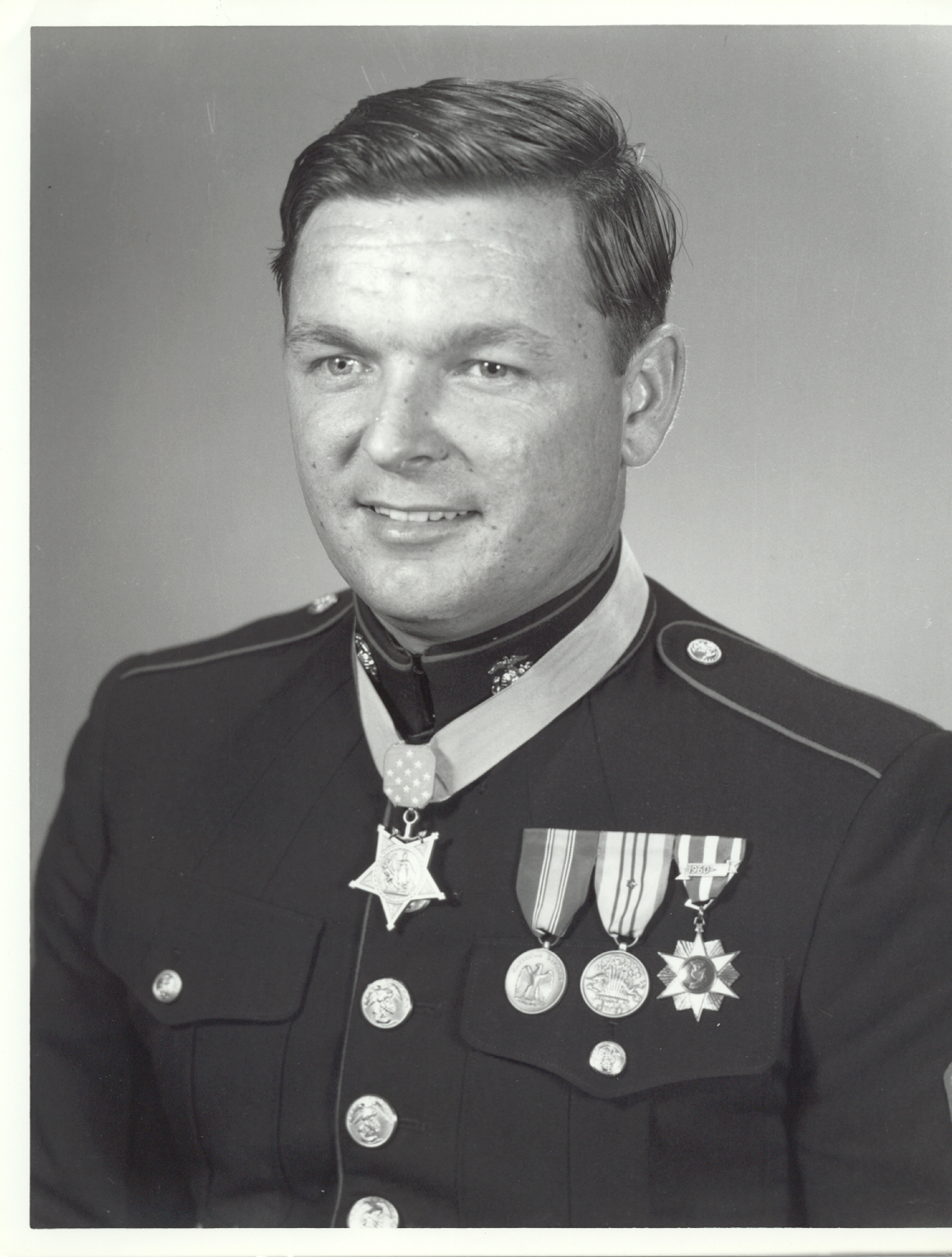 Richard A. Pittman, USMC (retired) (born 1945) was awarded the Medal of Honor for his heroic actions as a United States Marine on 24 July 1966 during the Vietnam War.